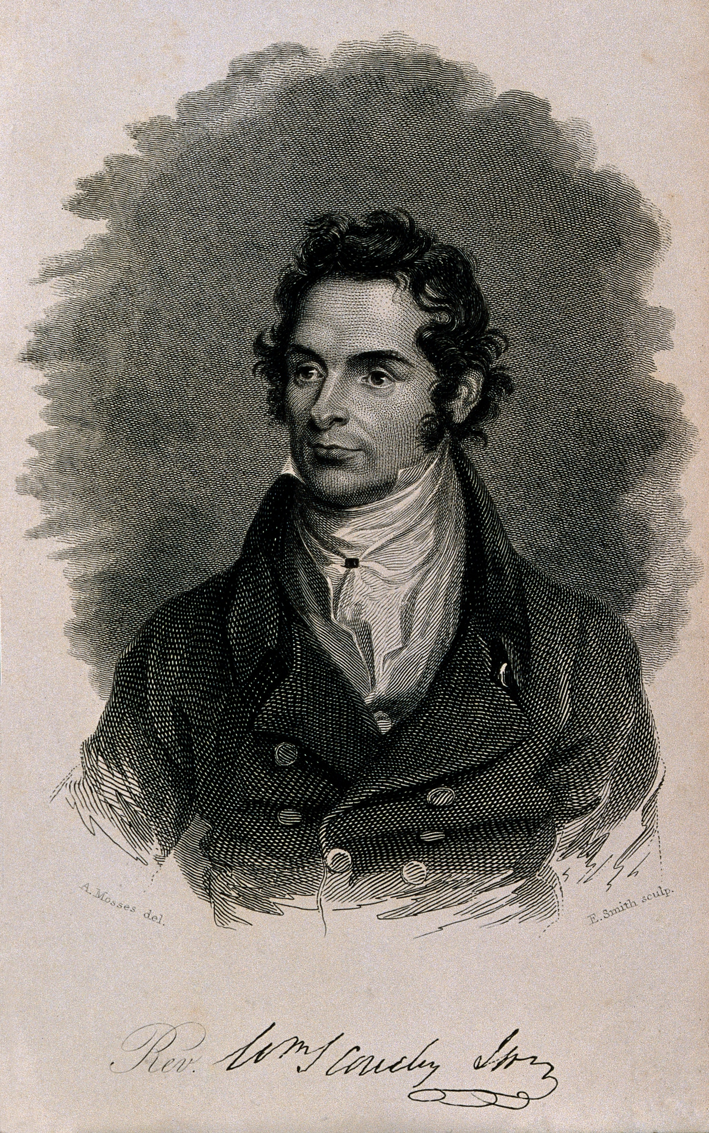 William Scoresby. Line engraving by E. Smith, 1821, after A. Mosses. Iconographic Collections Keywords: William Scoresby